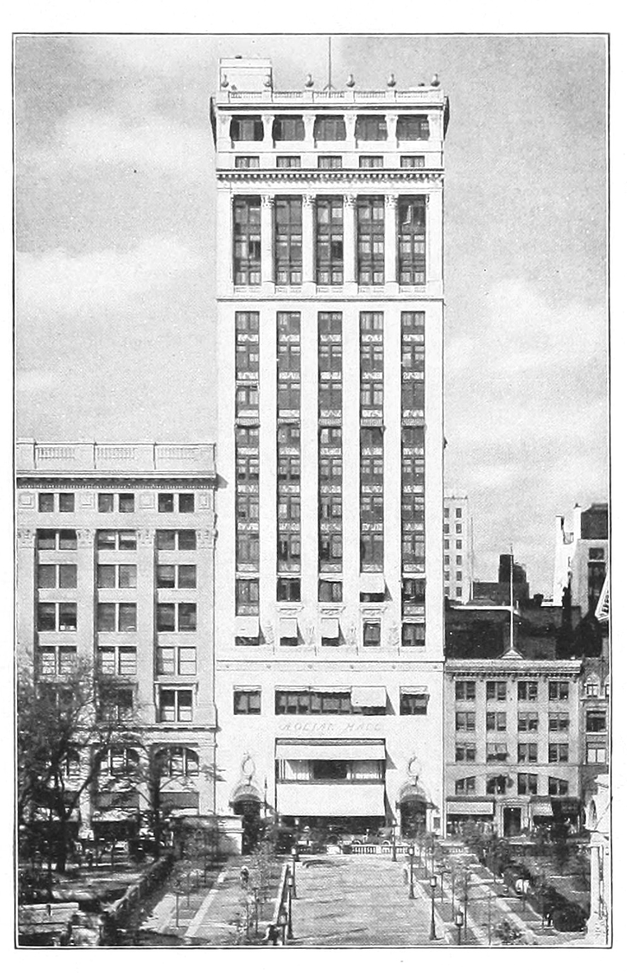 Aeolian Hall and the Aeolian Building, 33 West 42nd Street, facing Bryant Park.